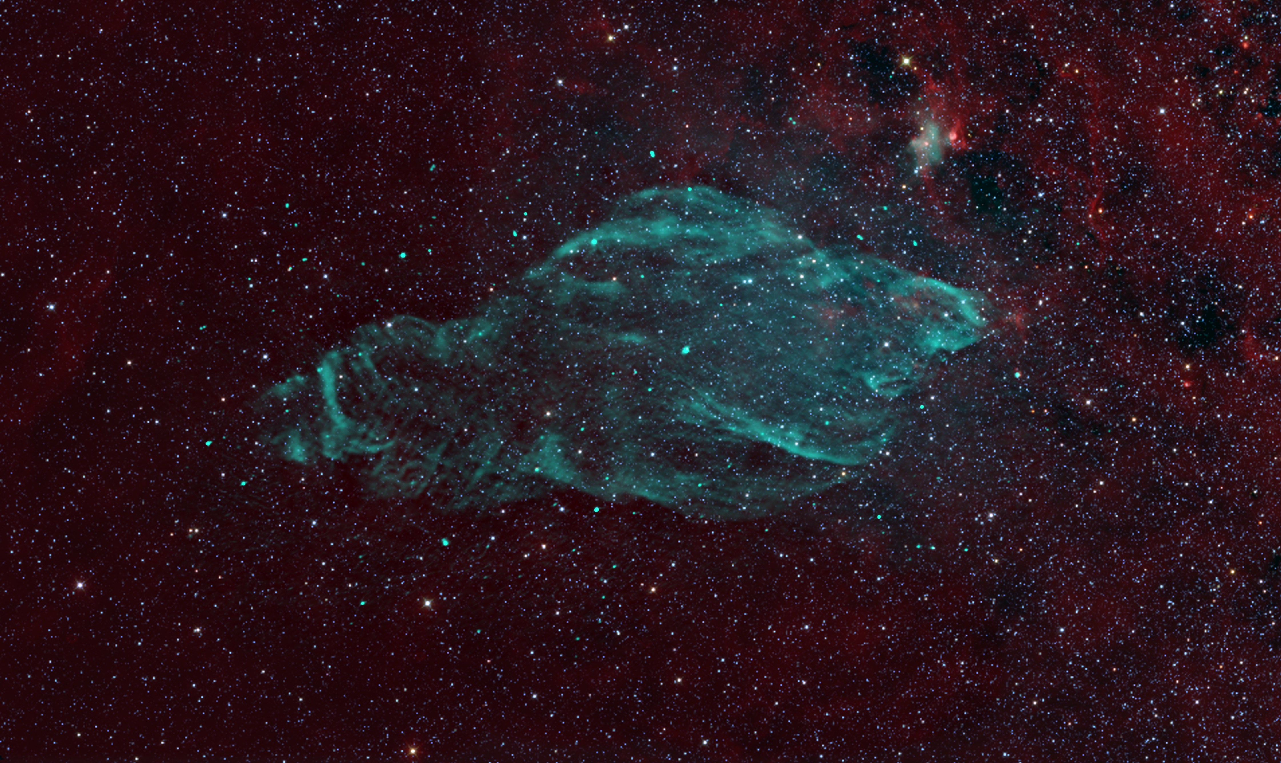 Radio image of supernova remnant W50 in green, with infrared background in red.